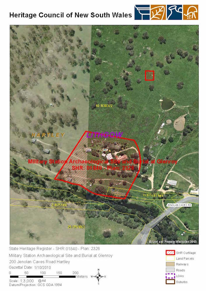 Military Station archaeological site: SHR Plan 2326